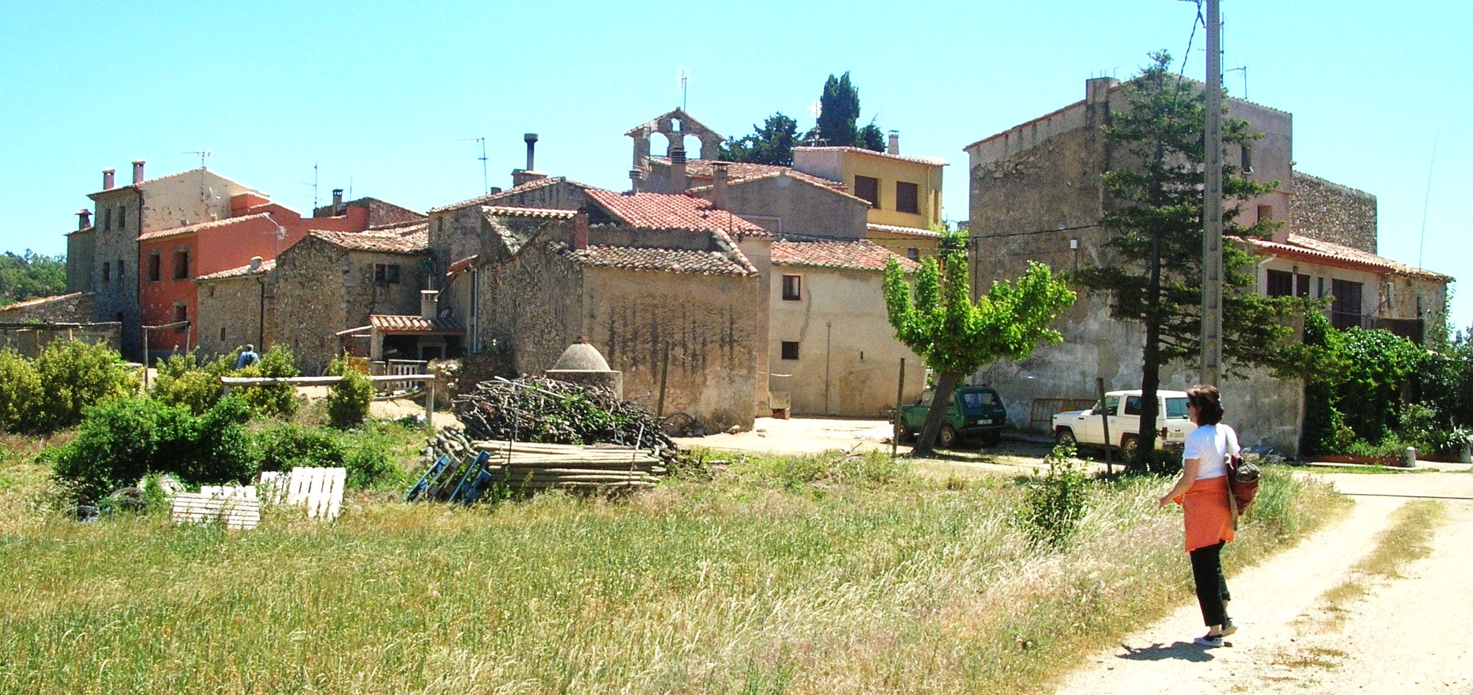 Tapis, a hamlet in Maçanet de Cabrenys, Catalonia (Europe)